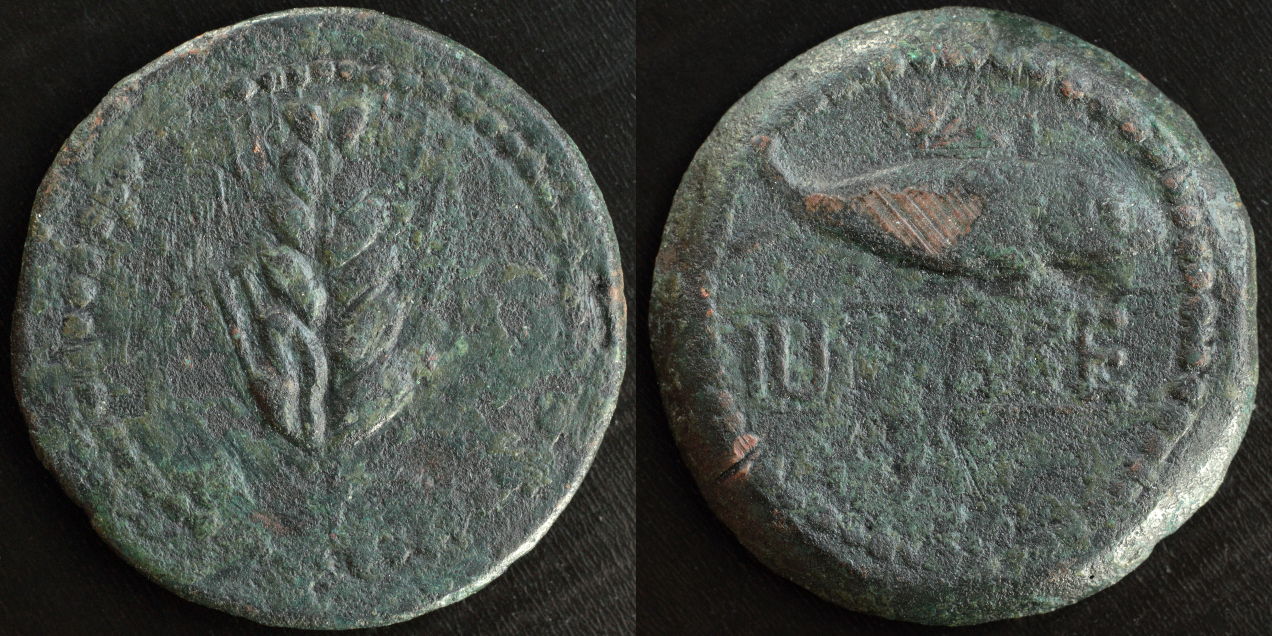 bronze coin from Ilipa struck circa 150 - 100 BC Obverse: grain ear Reverse: fish right, crescent above, ILIPENSE A Reference: SNGCop 148; CNH p. 374, 2; SNG BM Spain 1533-9.